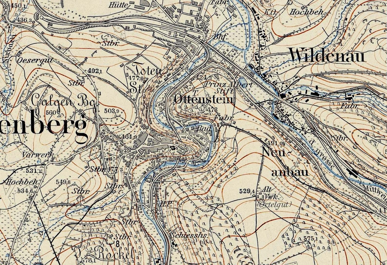 Schwarzenberg city, 1908